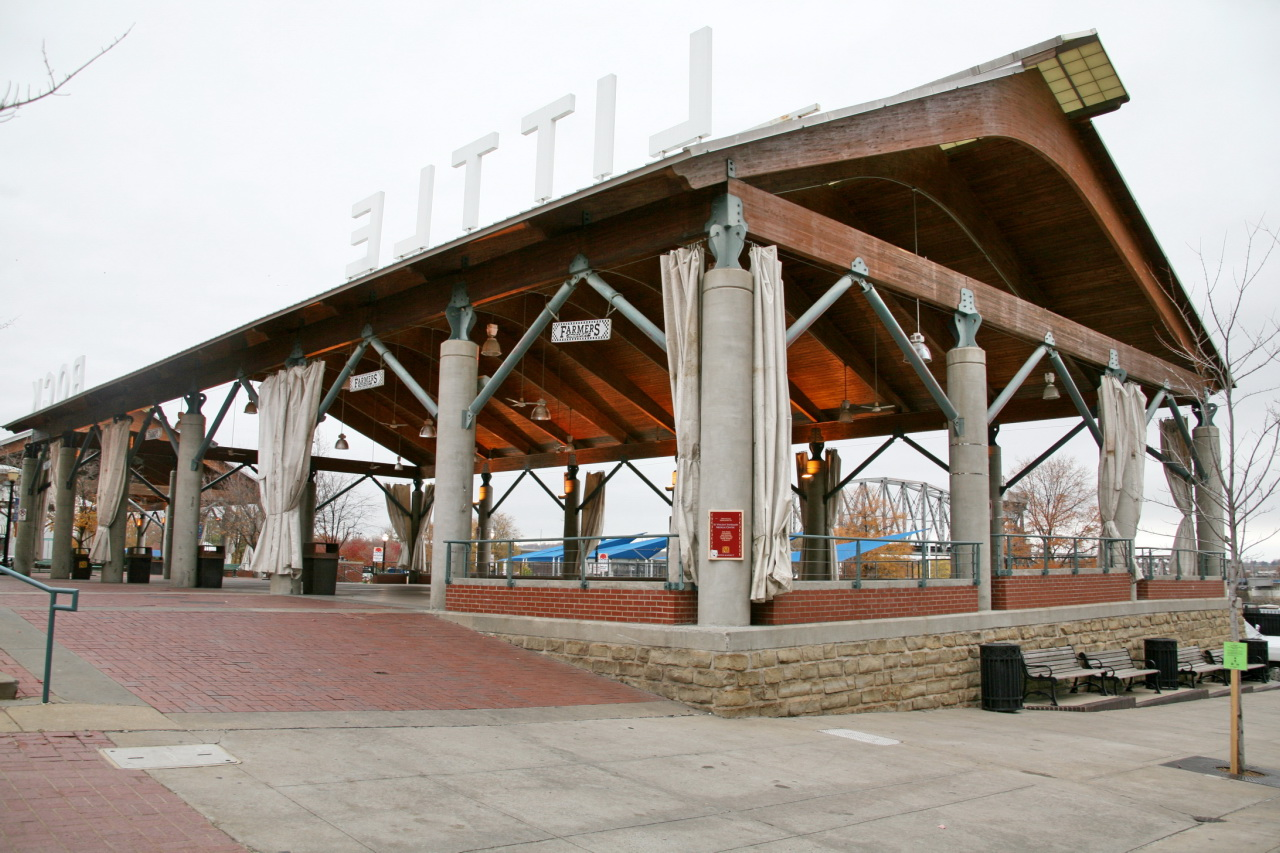 The River Market opened with great fanfare in Little Rock, AR on July 5, 1996. The Market is part of a $300 million riverfront development project designed to utilize the scenic charm of the Arkansas River, the Riverfront Park and existing historical structures along the riverfront. Major elements of the River Market District include: the Central Arkansas Main Public Library, the Arkansas Museum of Discovery, several restaurants/bars, specialty retail stores, residential living, Julius Breckling Riverfront Park, and the River Market. The River Market complex is a year-around, indoor market encompassing 10,000 square feet as well as an outdoor farmers market with two covered pavilions totaling 15,000 square feet. It is a beautiful elegant structure that fits well with adjoining buildings.